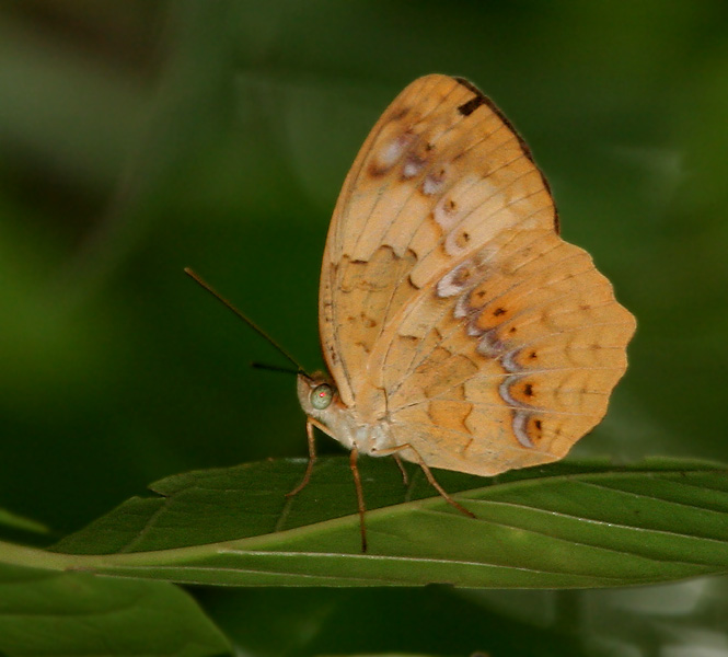 Rustic Cupha erymanthis in Talakona forest, in Chittoor District of Andhra Pradesh, India.